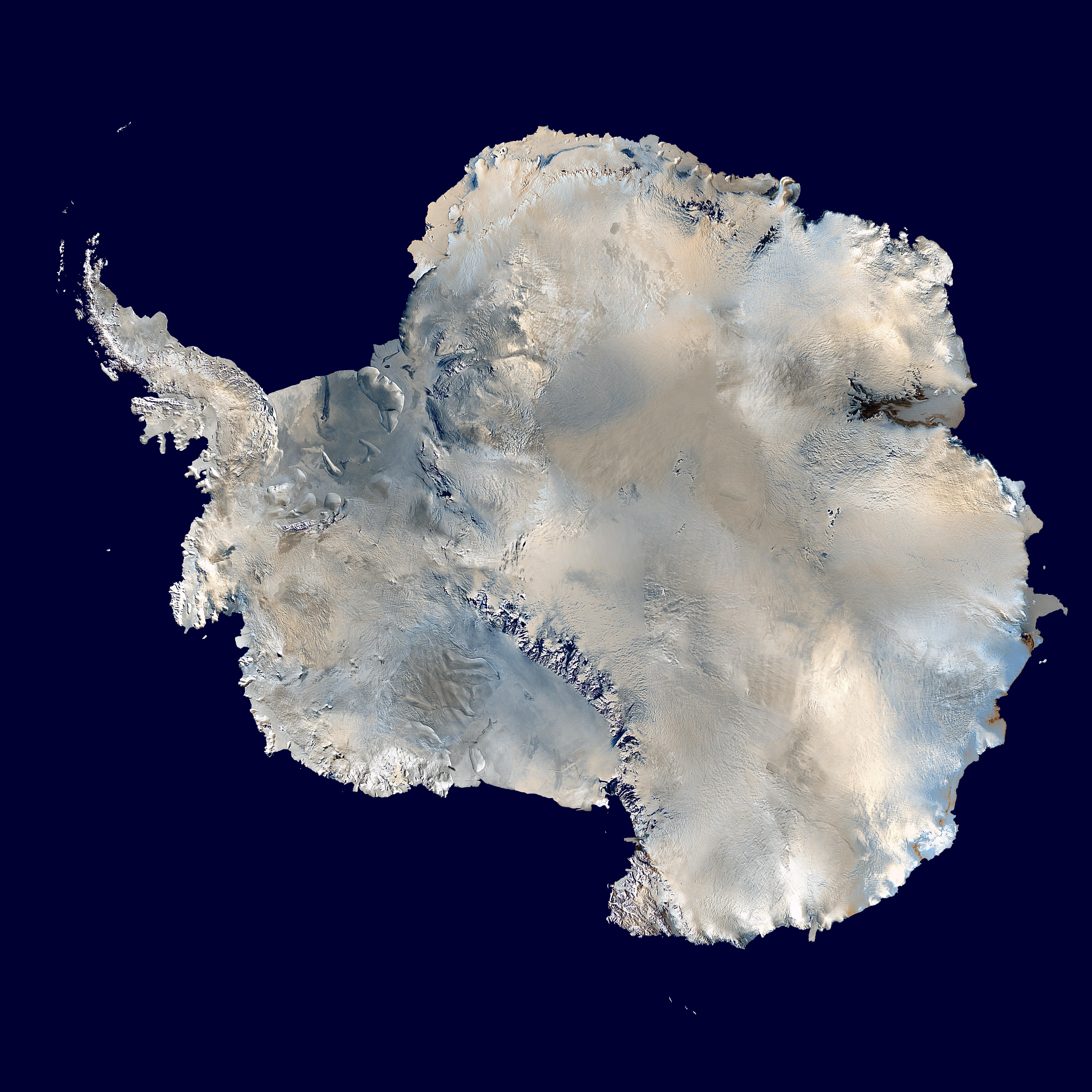 Antarctica. An orthographic projection of NASA's Blue Marble data set (1 km resolution global satellite composite). "MODIS observations of polar sea ice were combined with observations of Antarctica made by the National Oceanic and Atmospheric Administration’s AVHRR sensor—the Advanced Very High Resolution Radiometer." Image was generated using a custom C program for handling the Blue Marble files, with orthographic projection formulas from MathWorld. Note: this image has been manually modified to fill in an area of black pixels in the ocean, in the upper right quadrant. The black pixels are presumed to be due to missing data in the land/sea mask used in making the original Blue Marble image.